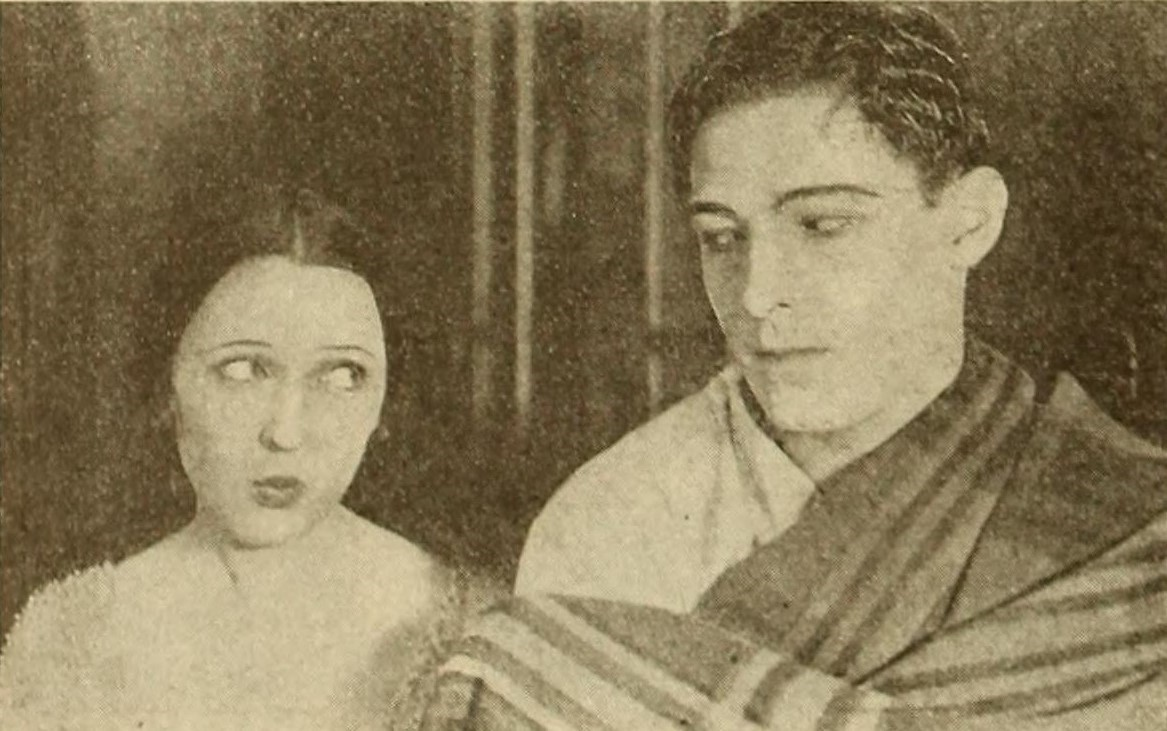 Photoplay, Jan. 1919